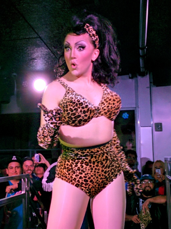 BenDeLaCreme at The Café in San Francisco, California, United States